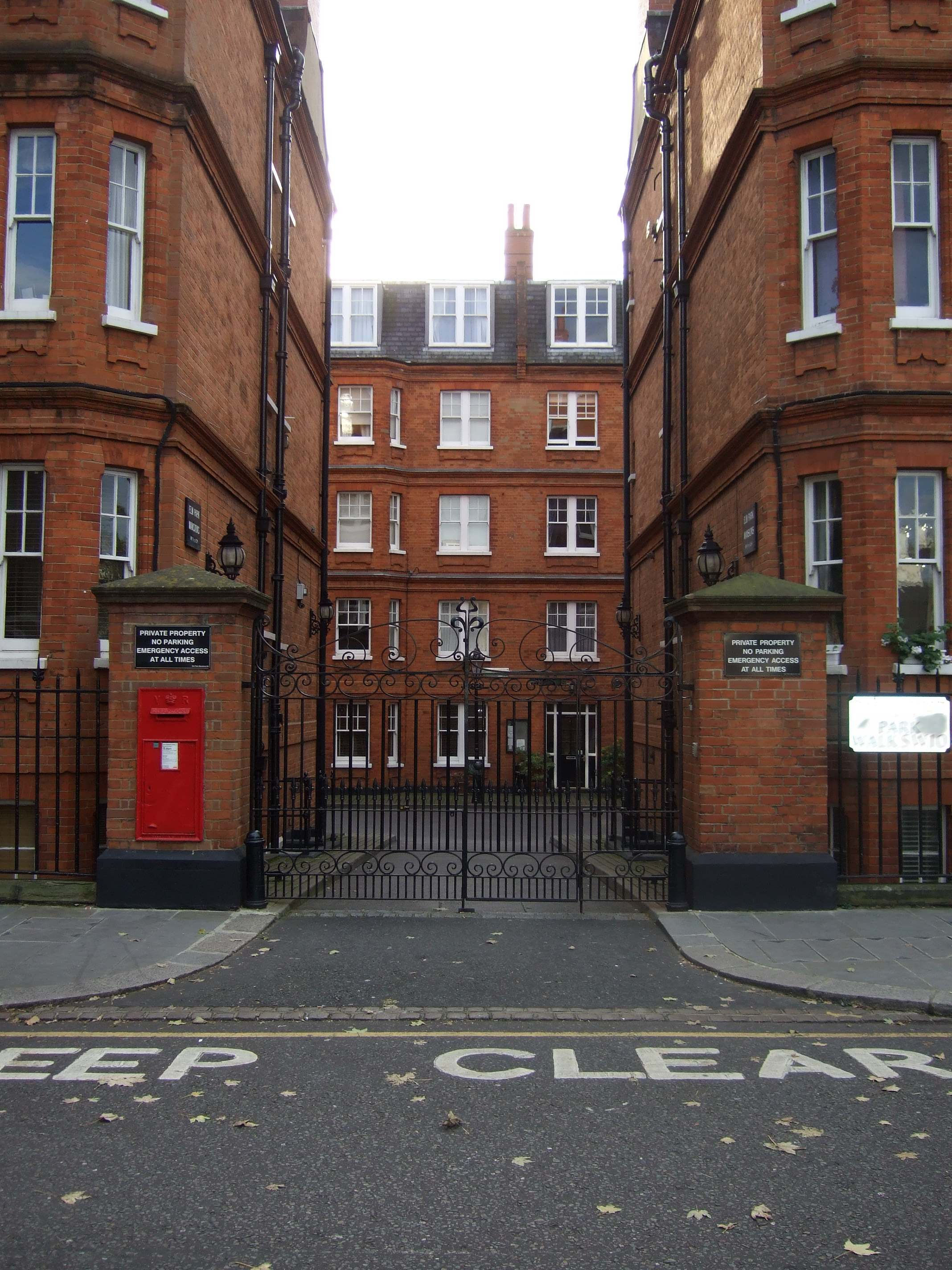 The exclusive block of flats in Chelsea, London that were used for the exterior shots of Mark's flat in the 1990s BBC Two sitcom Joking Apart